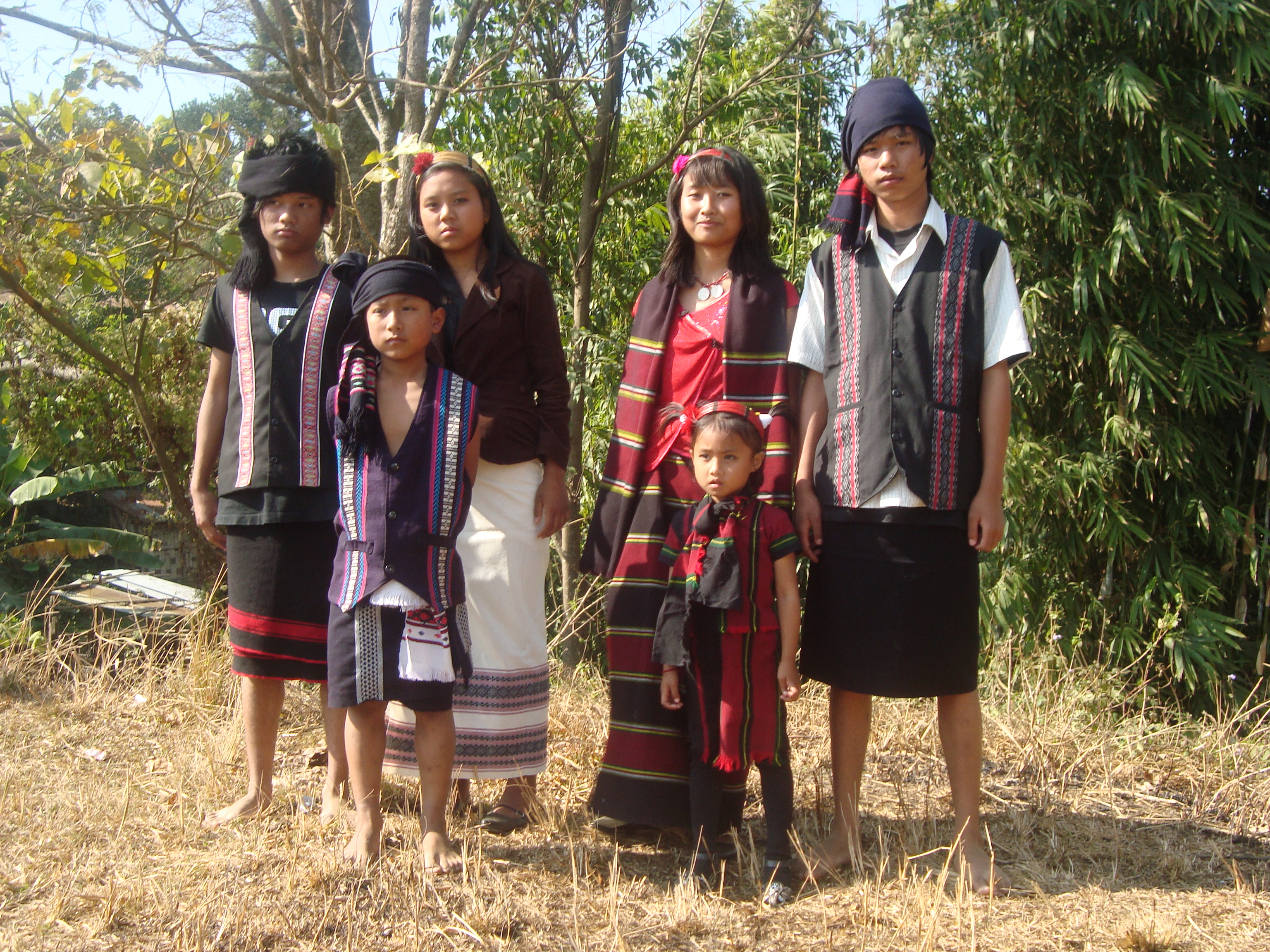 The Biate people today, in traditional dress